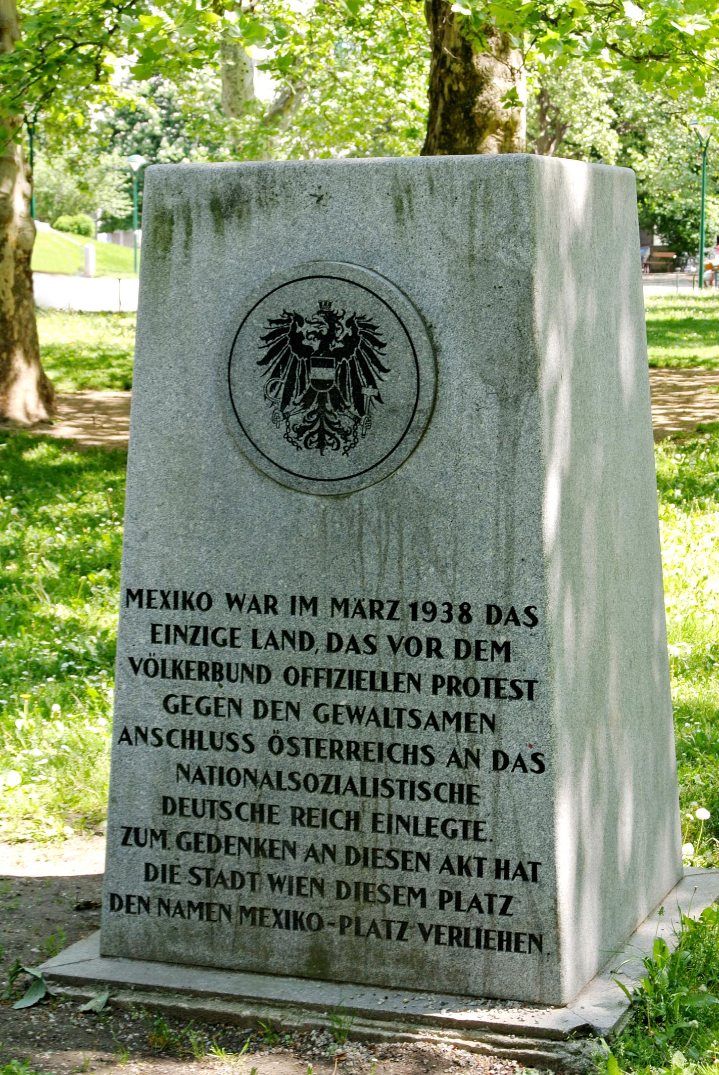 The modern place name adopted on June 20, 1956 by the Council Committee on culture should remind you that Mexico was the only country in 1938, which protested against the League of Nations against the "Anschluss" of Austria to the German Reich. The former Erzherzog Karl - square has been renamed on decision of the Council Committee for culture of June 27, 1956 in Mexico place. The unveiling of the Memorial was made in 1985 by Mayor Helmut Zilk and the Ambassador of Mexico Roberto de Rosenzweig Díaz.